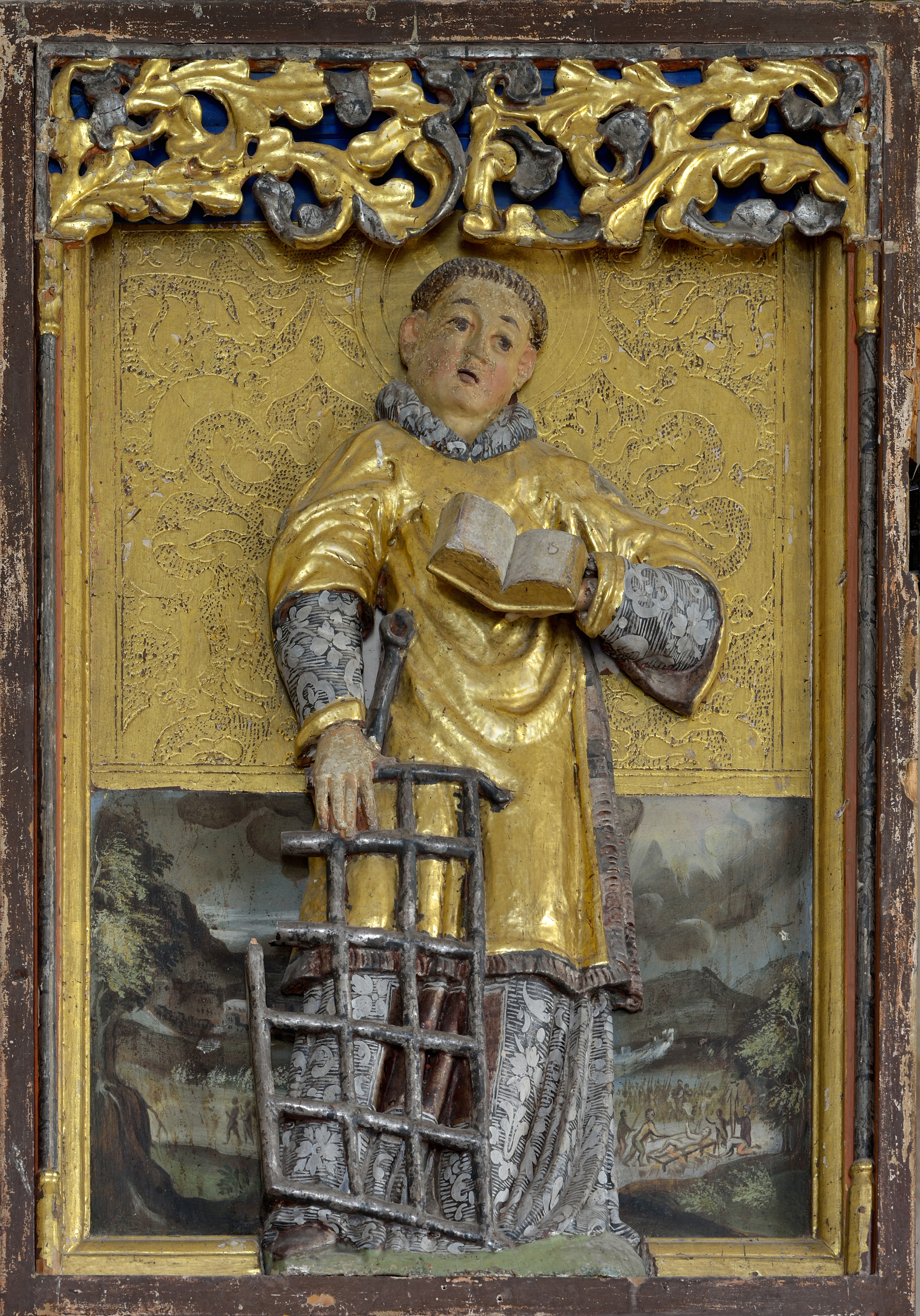 Saint Lawrence. Winged altar in the Saint Margareth church in Obervöls.